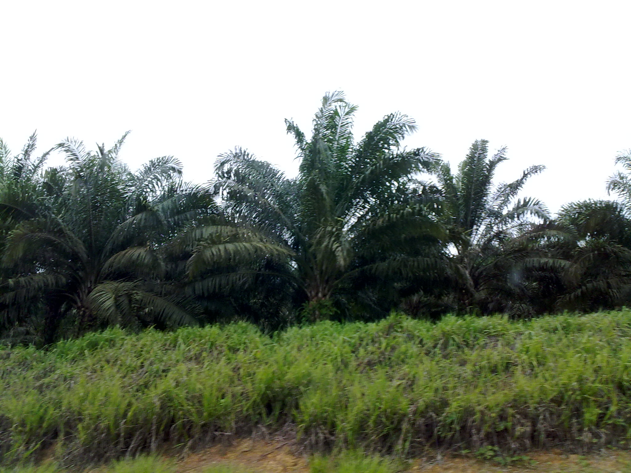 Pokok Kelapa Sawit